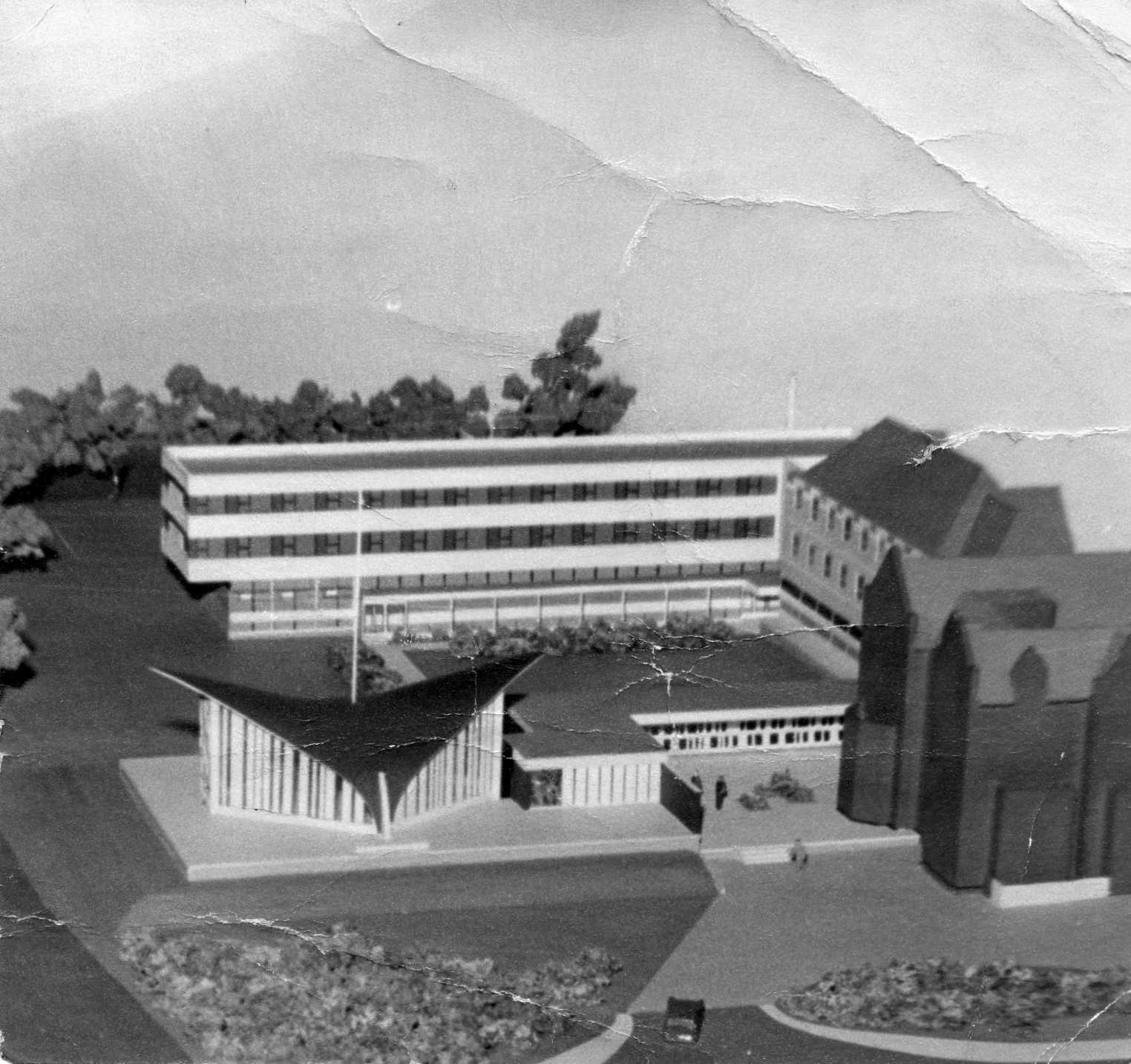 1964 architect's model of the Church Army Chapel at Blackheath, by E.T. Spashett ARIBA. The building was opened by Princess Alexandra in July 1965, as part of the Wilson Carlile Training College at Vanburgh Park, Blackheath, London. The spire is now missing, but can be seen on the model as a white vertical line coming from the centre of the hyperbolic paraboloid roof of the chapel. In 1965 there was an open quadrangle behind the chapel, but now that is filled with two large buildings. The original plans are lost and this is all that is currently available from 1964-65 of the chapel itself, apart from File:Church Army Chapel Drawing 1965.JPG and a scan of a 1965 colour print.